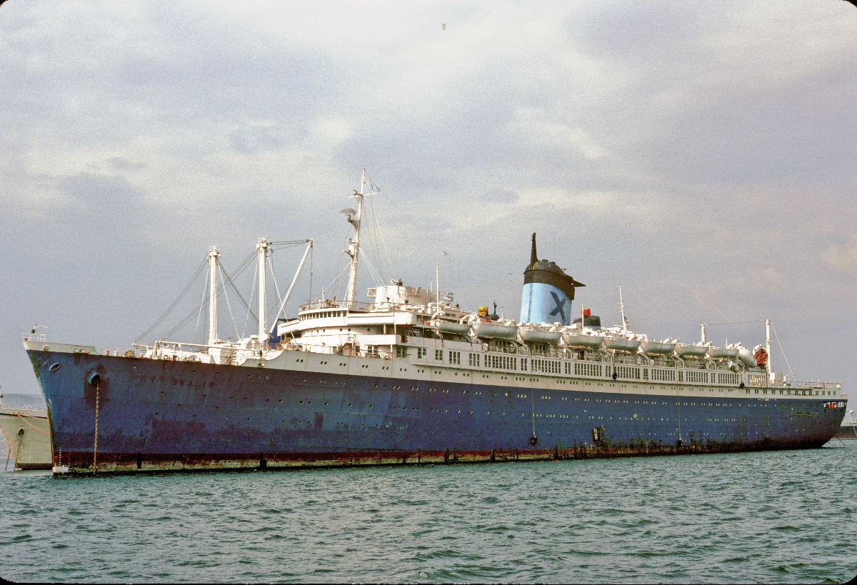 The cruise ship Noga in Eleusis on July 16, 1986.